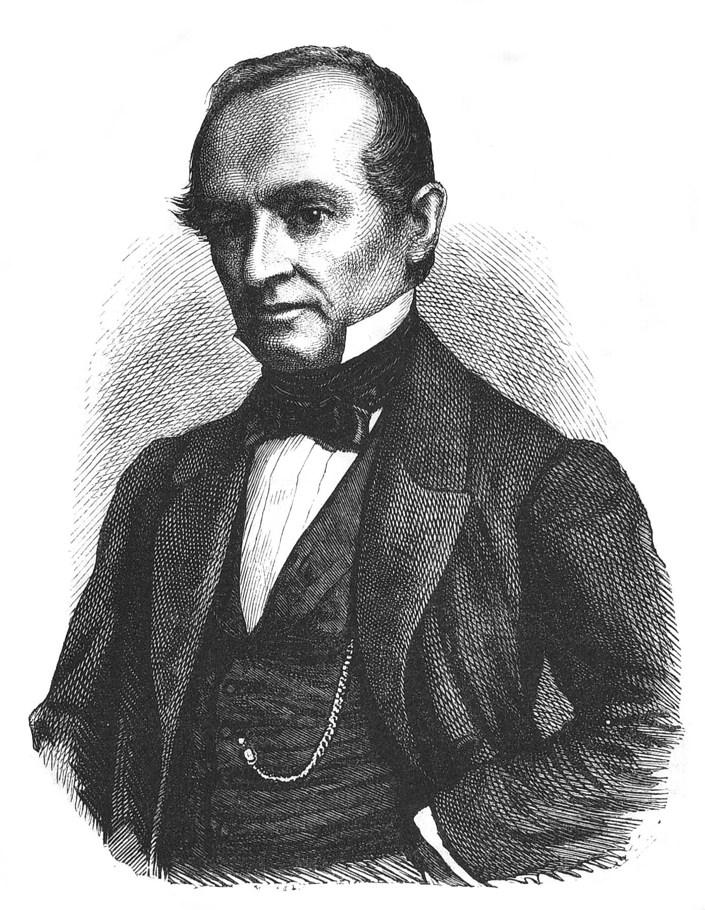 no caption